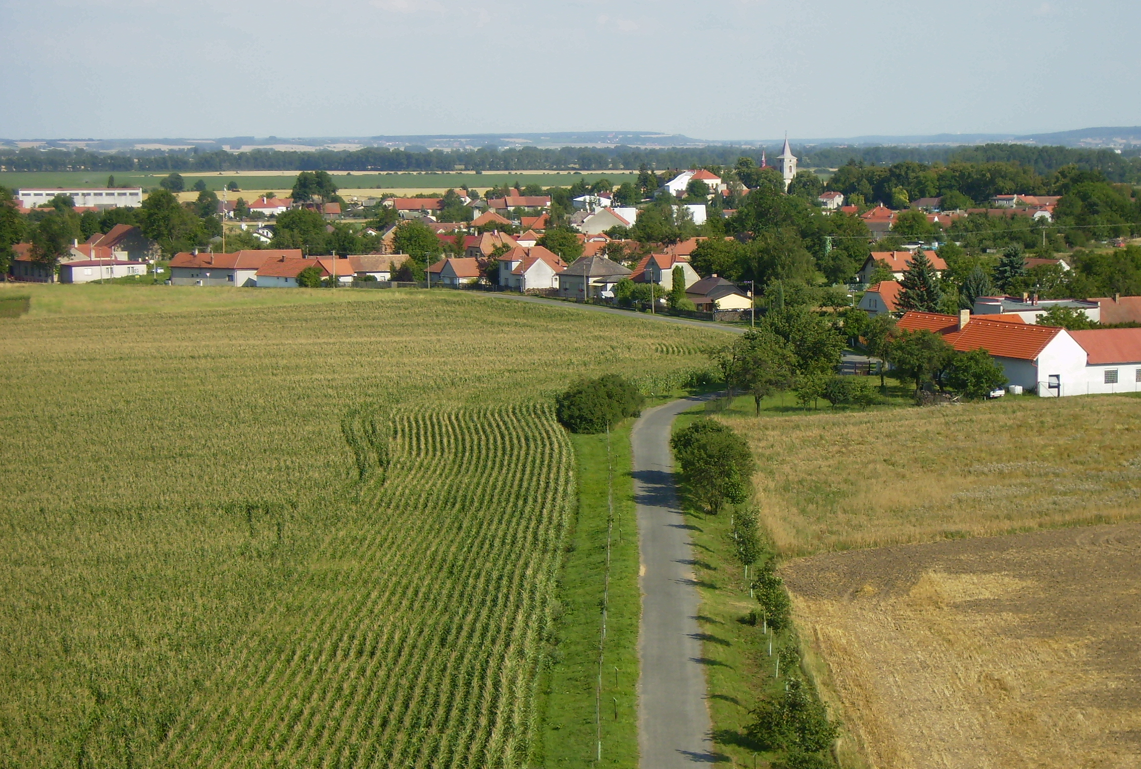 Village of Hrubý Jeseník (Nymburk District, Czech Republic) as seen from Romanka lookout tower.